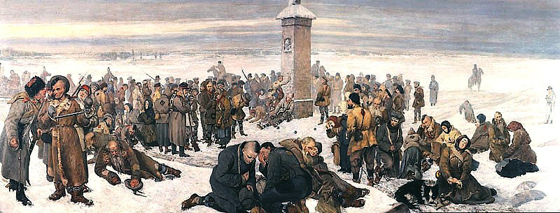 The subject of the painting is the Siberian exile of Poles after their defeated January Uprising (1863) against the Russian Empire. The painting depicts the stop of the exiled convoy by the obelisk that marks the border between Europe and Asia. The artist himself is among the exiled here, near the obelisk, on the right.[1]